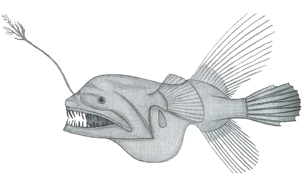 Illustrated by Ray Simpson Caulophryne pelagica